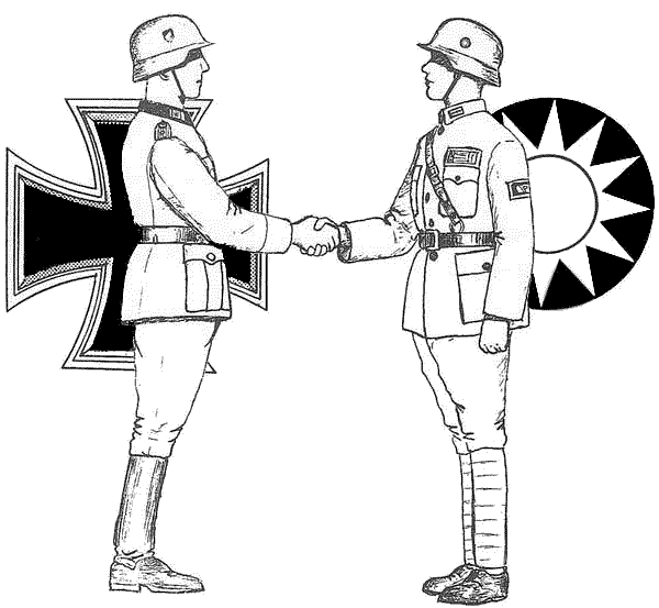 Hard copy from the ROC Ministry of National Defense Archives